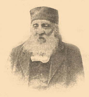 Illustration from Brockhaus and Efron Jewish Encyclopedia (1906—1913)